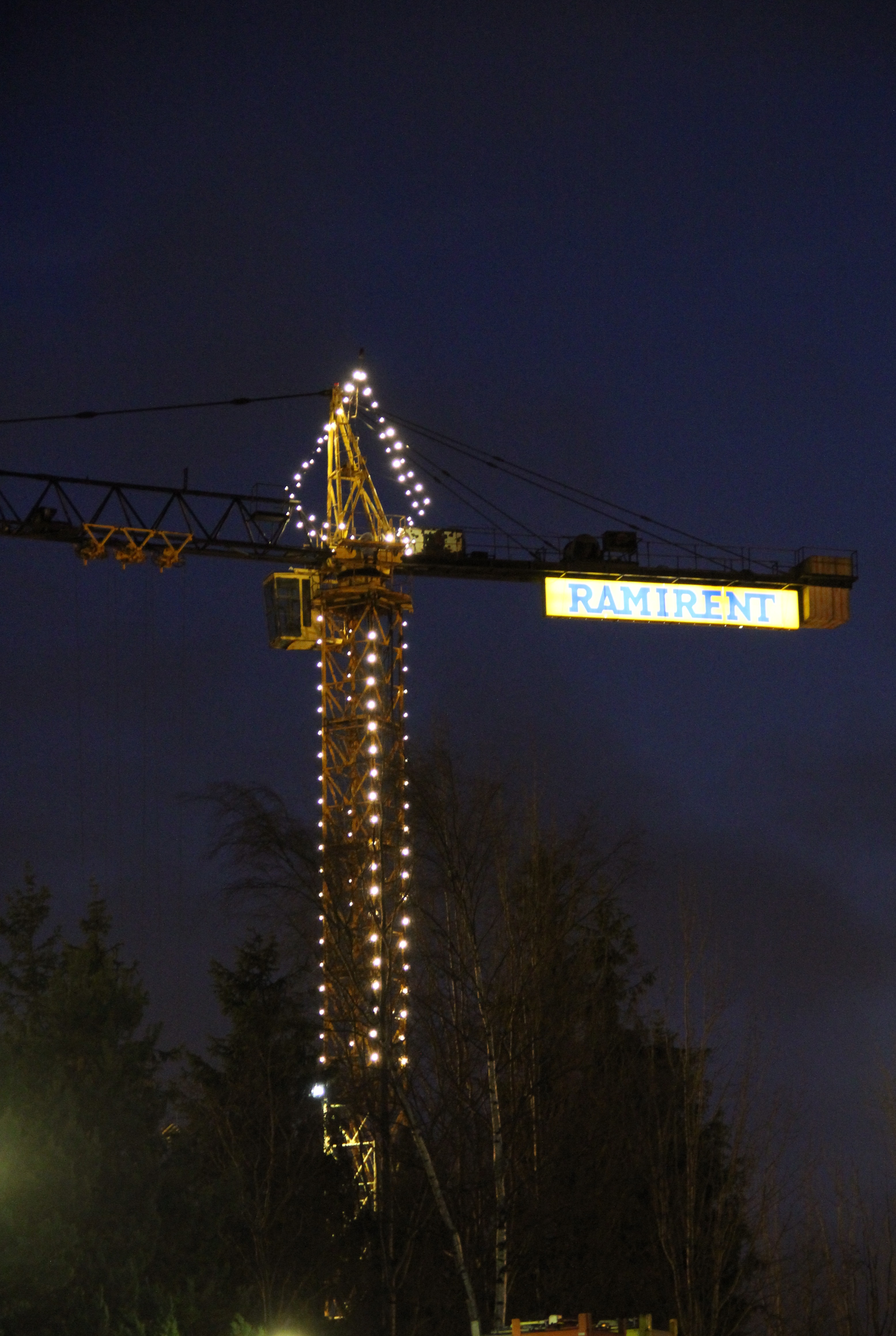 A tower crane, illuminated as a christmas tree, at Ramirent equipment rental company headquarters in Siltamäki, Helsinki, Finland.